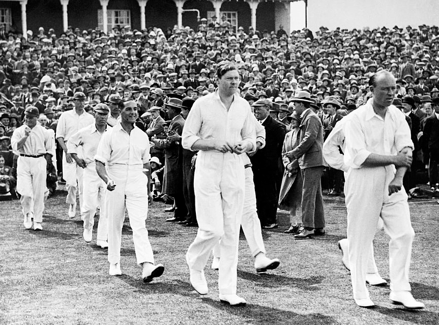 Arthur Carr (right) and APF Chapman leading out the England cricket team at the start of the 3rd Test match against Australia at Headlingley in Leeds, circa July 1926. The match ended in a draw.